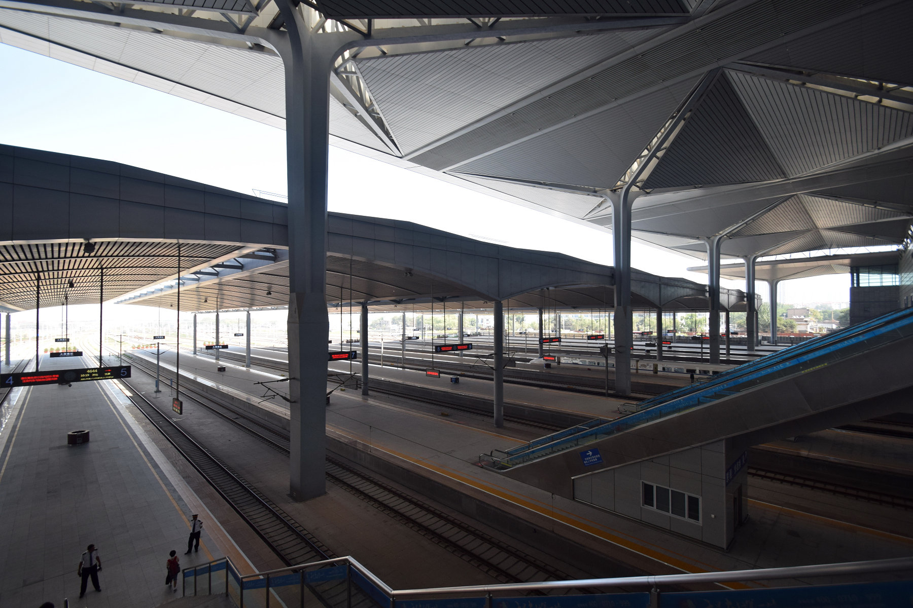 Platforms of Taiyuan Nan (South) Railway Station